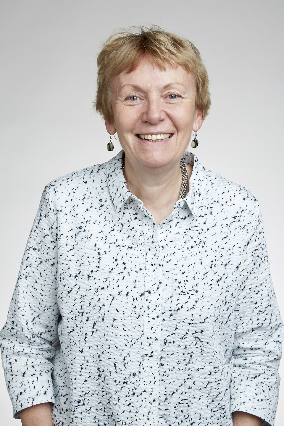 Maria Fitzgerald FRS is a Professor in the Department of Neuroscience at University College London. Attribution: The Royal Society